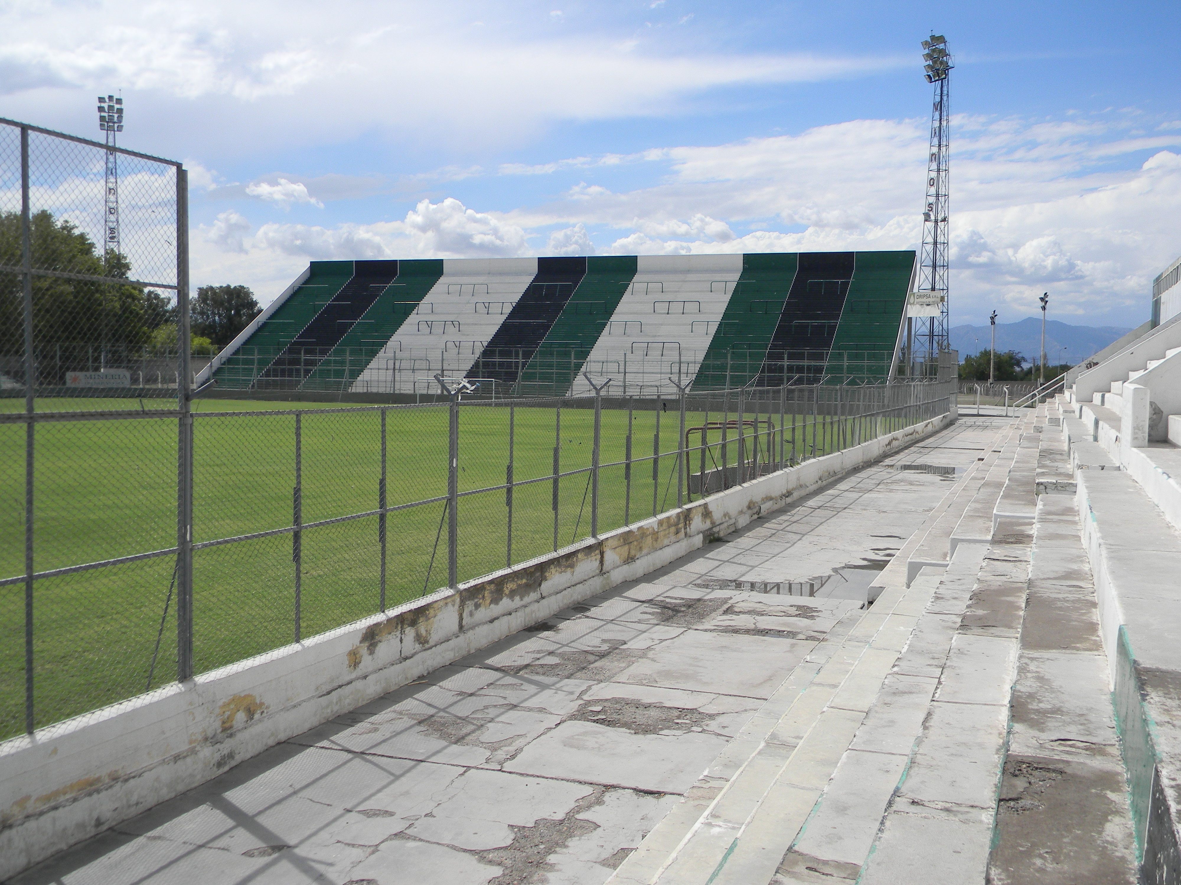 New north end, Engineer Hilario Sanchez Stadium